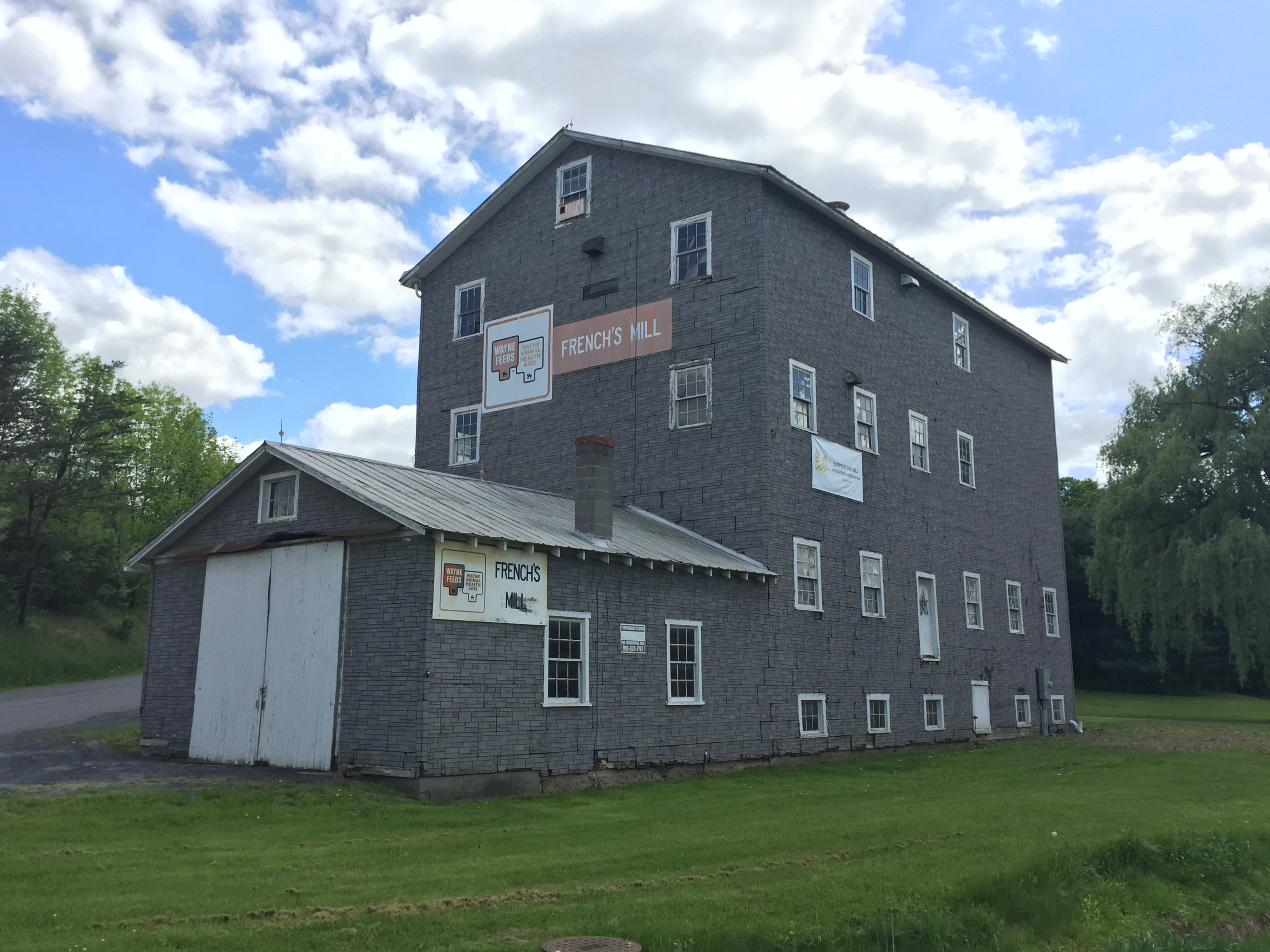 French's Mill (1911) is an early 20th-century grist mill in the unincorporated community of Augusta in the U.S. state of West Virginia. French's Mill is located at the intersection of Augusta-Ford Hill Road (West Virginia Secondary Route 7) and Fairground Road. It was listed on the National Register of Historic Places on December 16, 2014. Photographed by Justin A. Wilcox of Washington, D.C. on May 10, 2015.